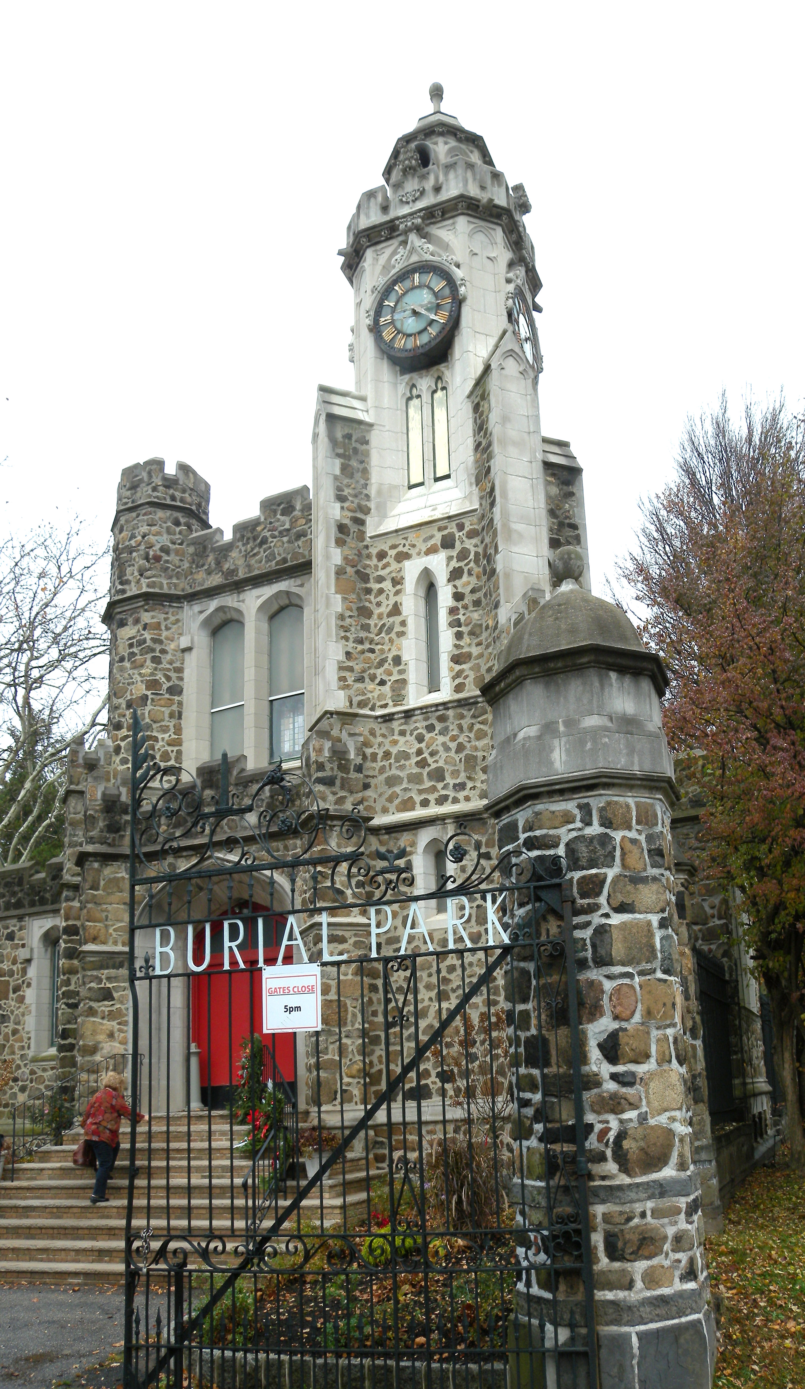 Looking north at gate of Ocean View Burial Park in Bay Terrace, Staten Island on a rainy early afternoon.